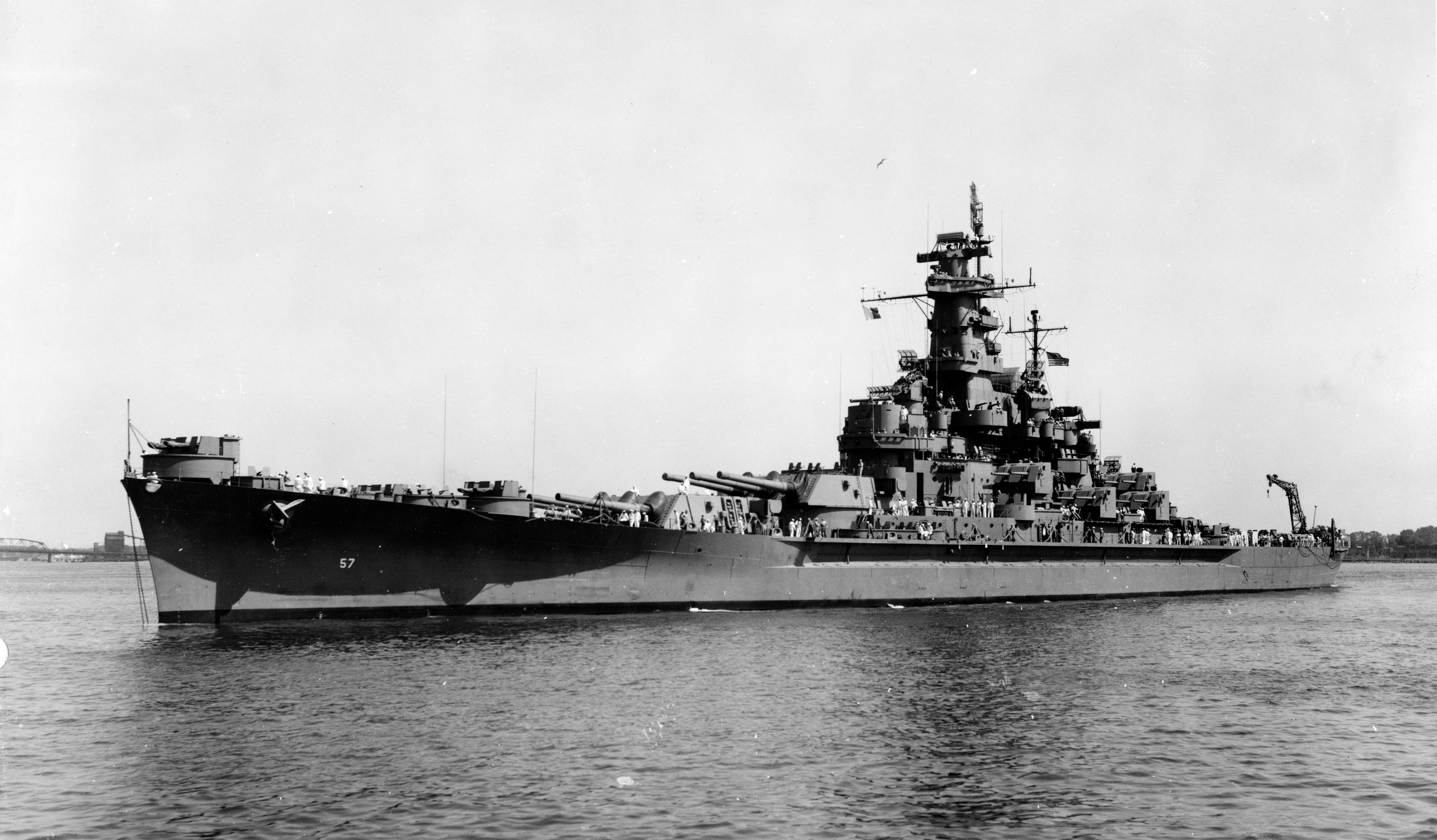 The U.S. Navy battleship USS South Dakota (BB-57) off the Norfolk Naval Shipyard, Virginia (USA), on 20 August 1943.